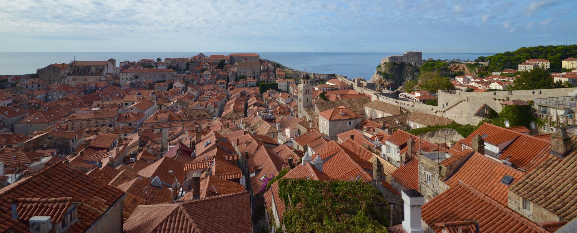 The view from the spot where you first come out on top of the walls of Dubrovnik